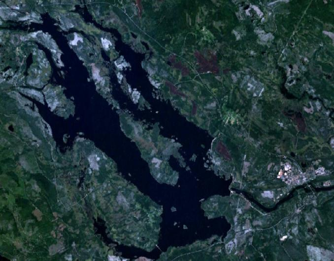 Svegssjön and Sveg to the right.